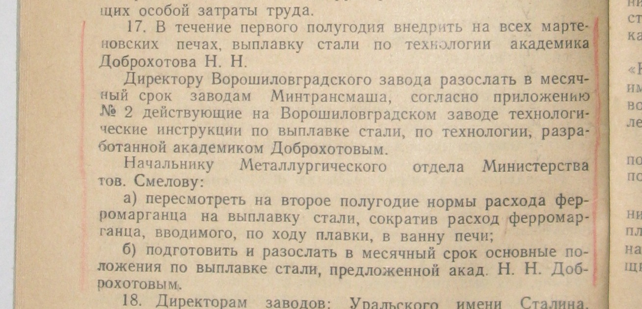 Сitation from the order about introduction of N.N. Dobrokhotov steel production technology on all open-hearth furnaces of the USSR.